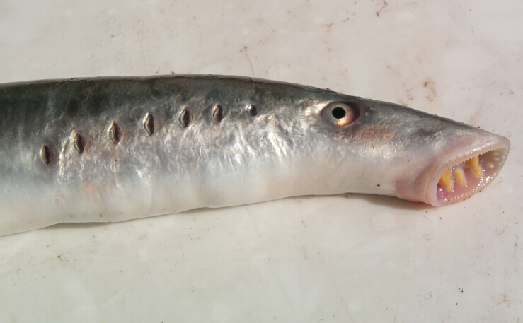 Lampetra fluviatilis from the german northsea